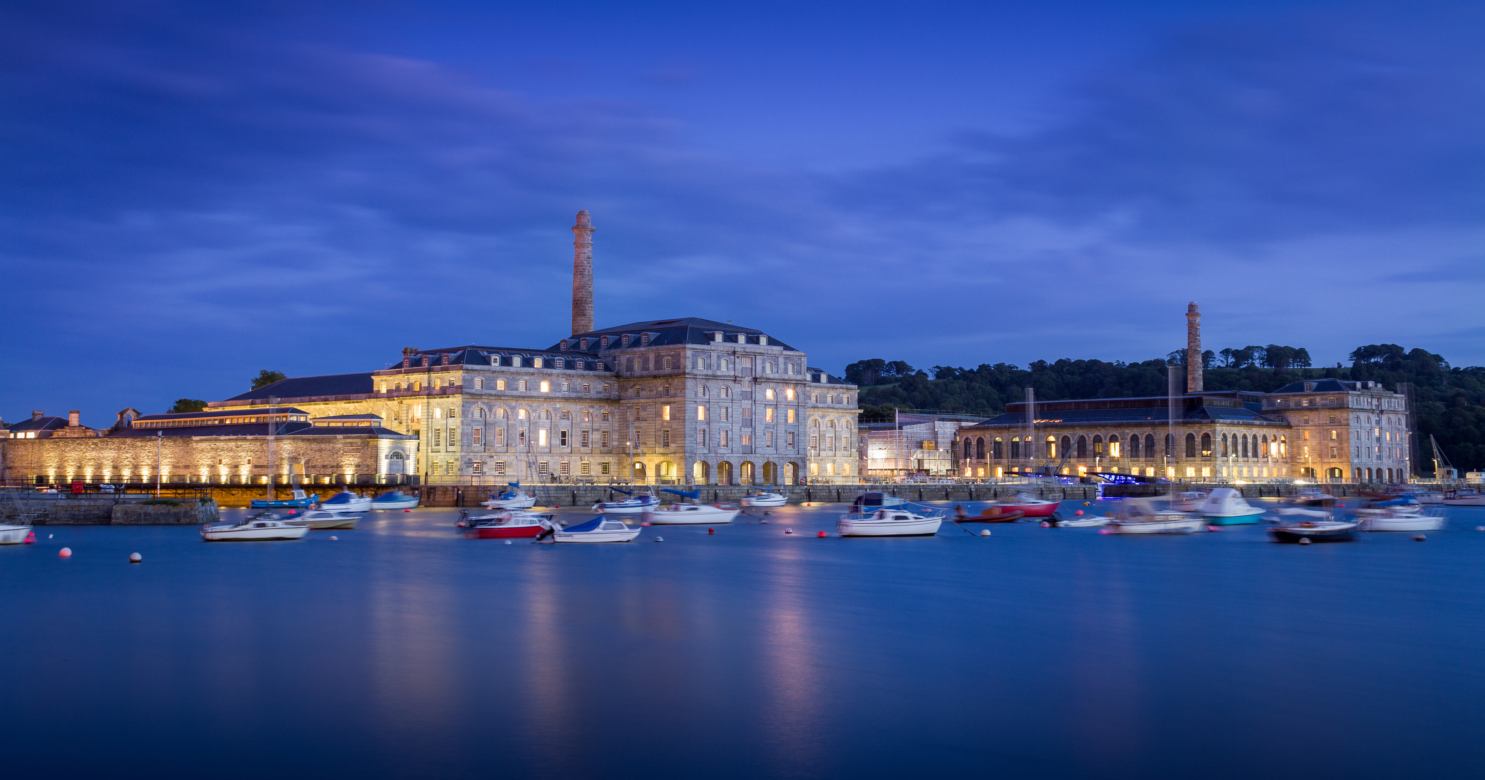 Royal William Victualling Yard at twilight. Plymouth, Devon.